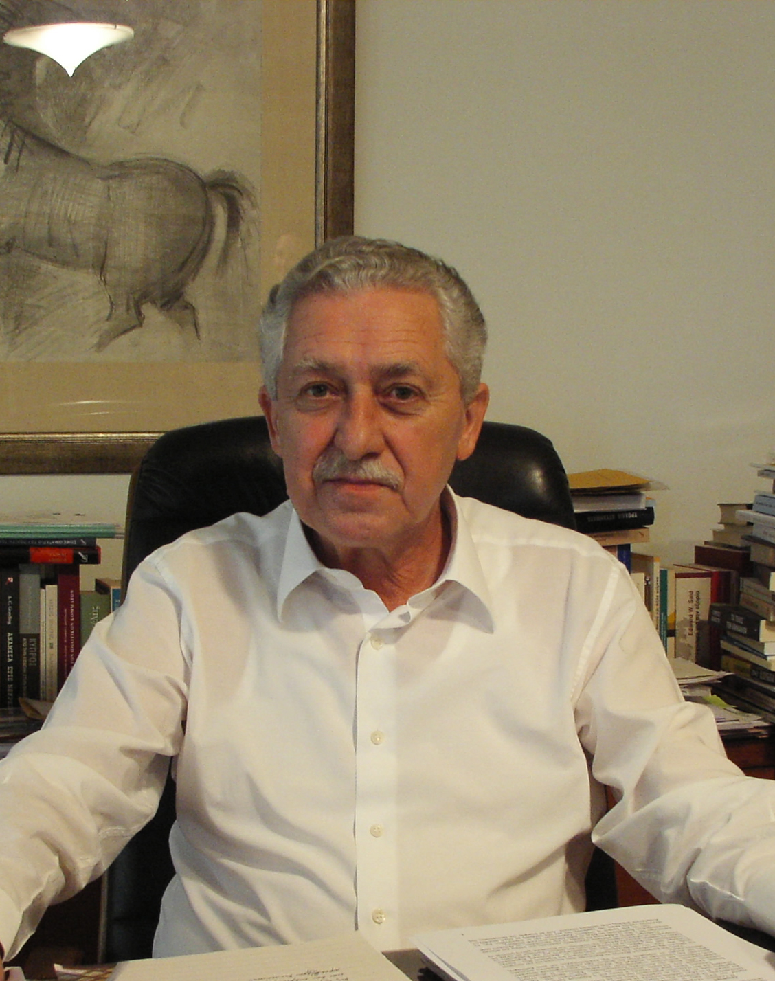 Fotis Kouvelis, Greek politician